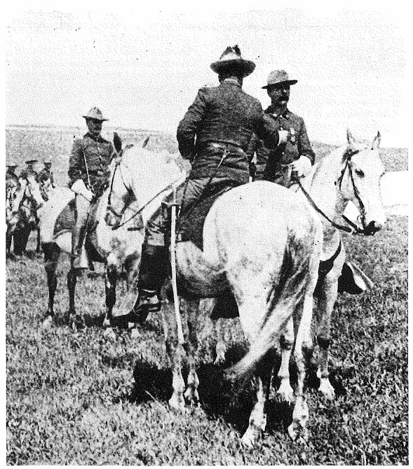 Sergeant Toy receiving the Medal of Honor at Fort Riley, Kansas, 1891, photograph from Harper's Weekly.